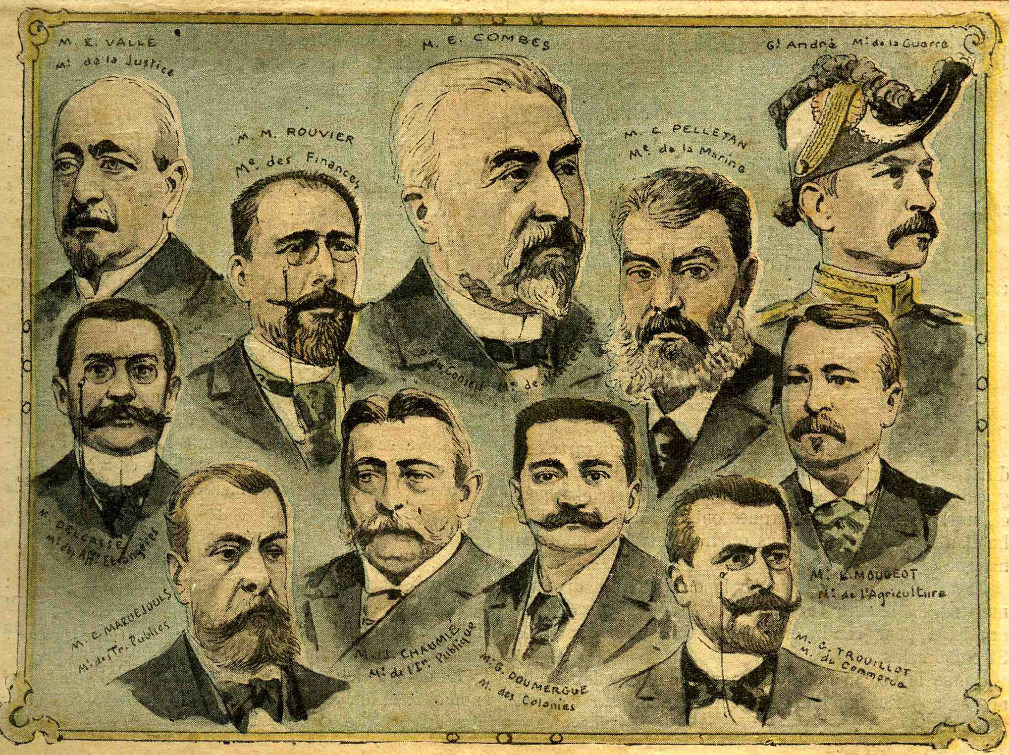 Émile Combes and his new ministers in 1902